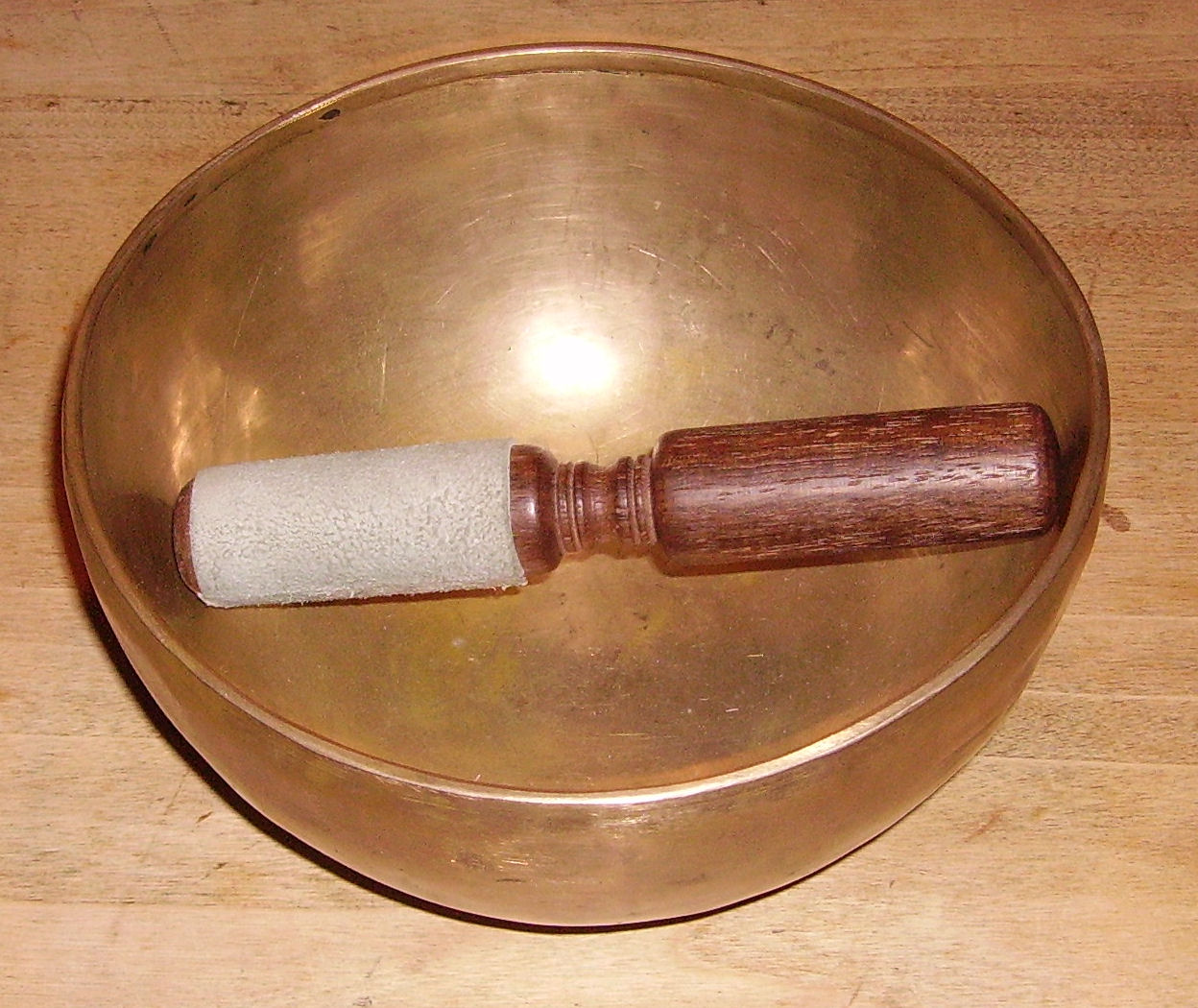 singing bowl from Tibet